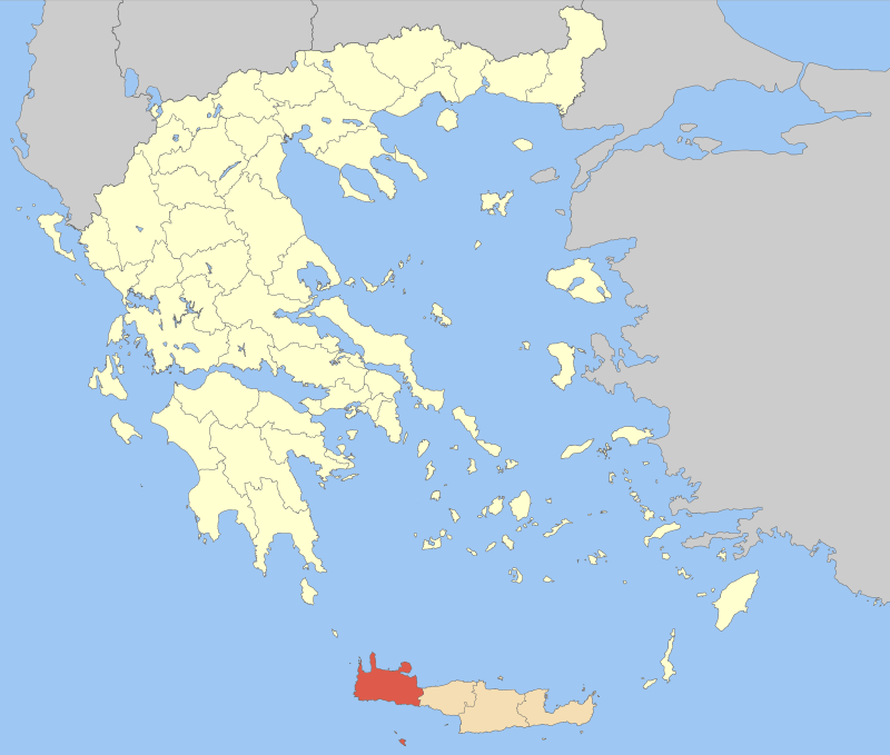 Locator map of Chania prefecture (Νομός Χανίων) in Greece